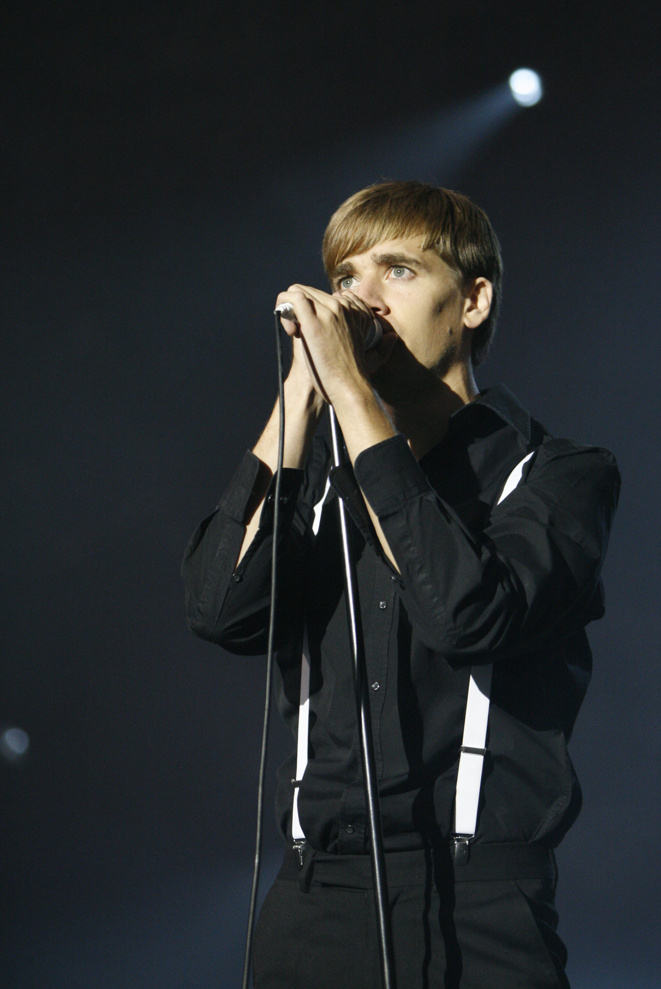 The Hives at the Eurockéennes of 2007